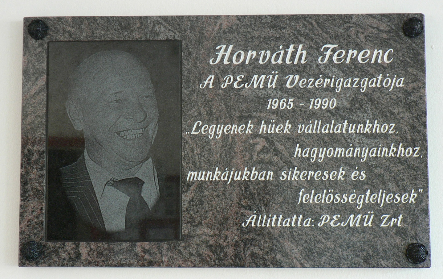 Horváth Ferenc emléktábla a PEMŰ-ben